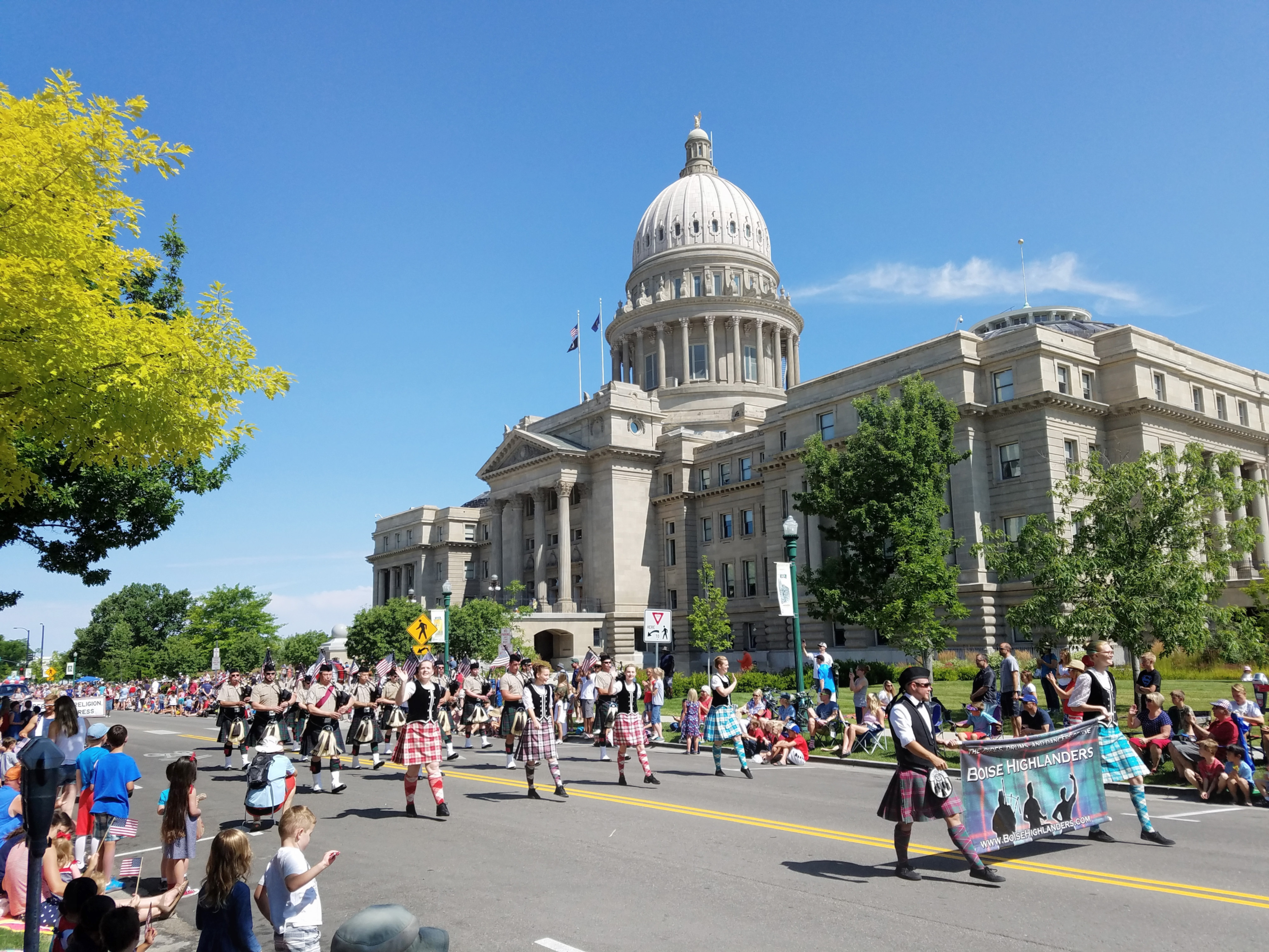 Boise Highlanders in the Fourth of July Parade in Boise, Idaho.